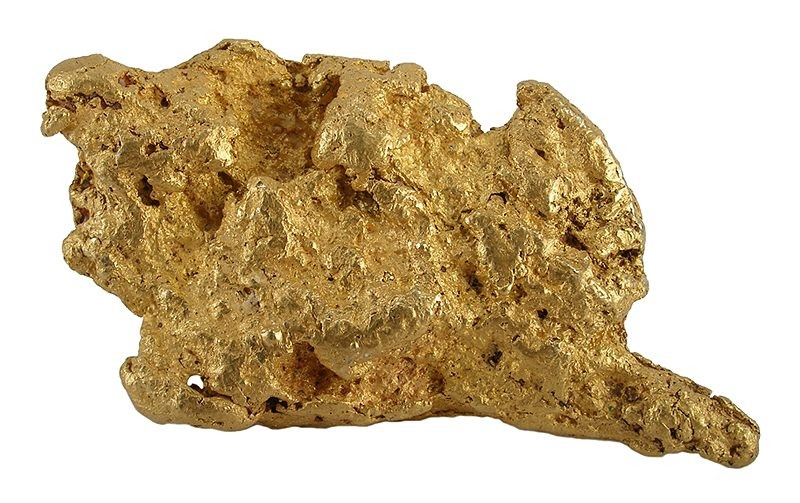 Gold Locality: Bendigo, Victoria, Australia (Locality at ) This massive, organic-looking piece is just a beautiful large nugget. It is getting very hard, what with all the speculation on gold value, to get good specimen nuggets at a fair price. This one weighs 490 grams, 17.5 ounces, or about 16 troy ounces (31 grams per troy ounce as opposed to 28 grams per "regular" ounce). A beaut, as they say down under! 10.6 x 5.5 x 1.9 cm